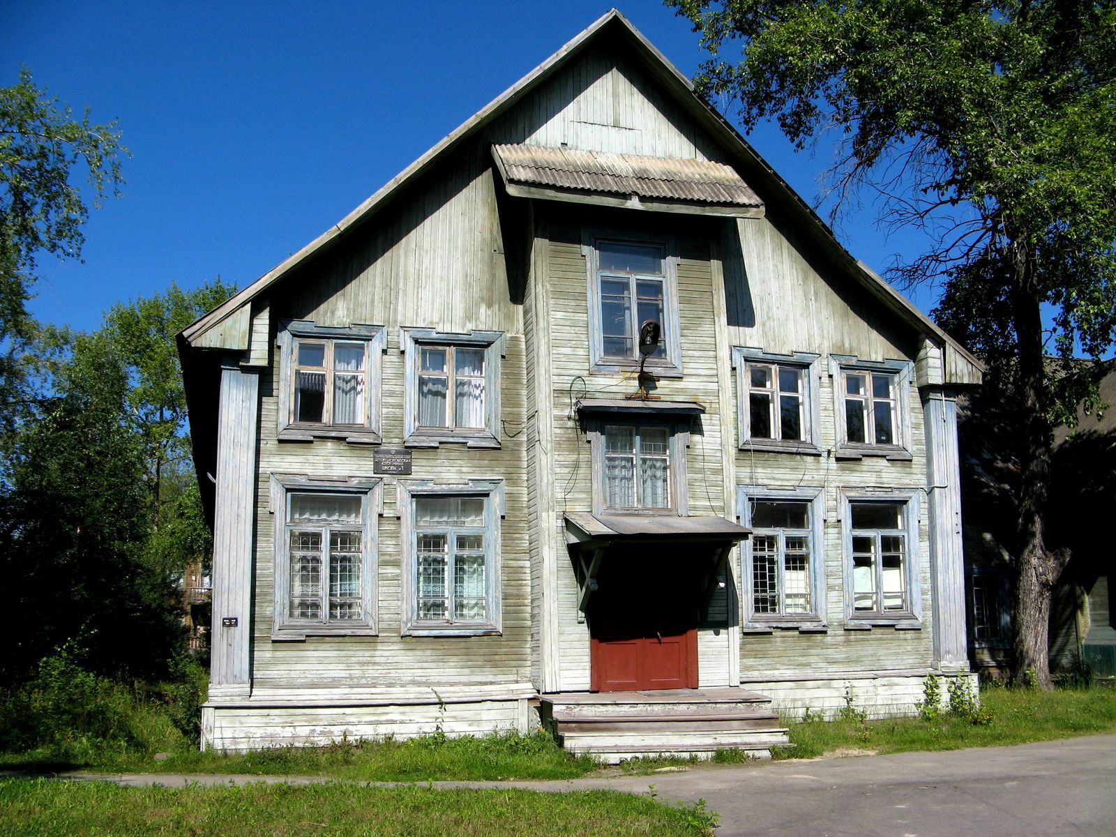 Children's sports school in Segezha